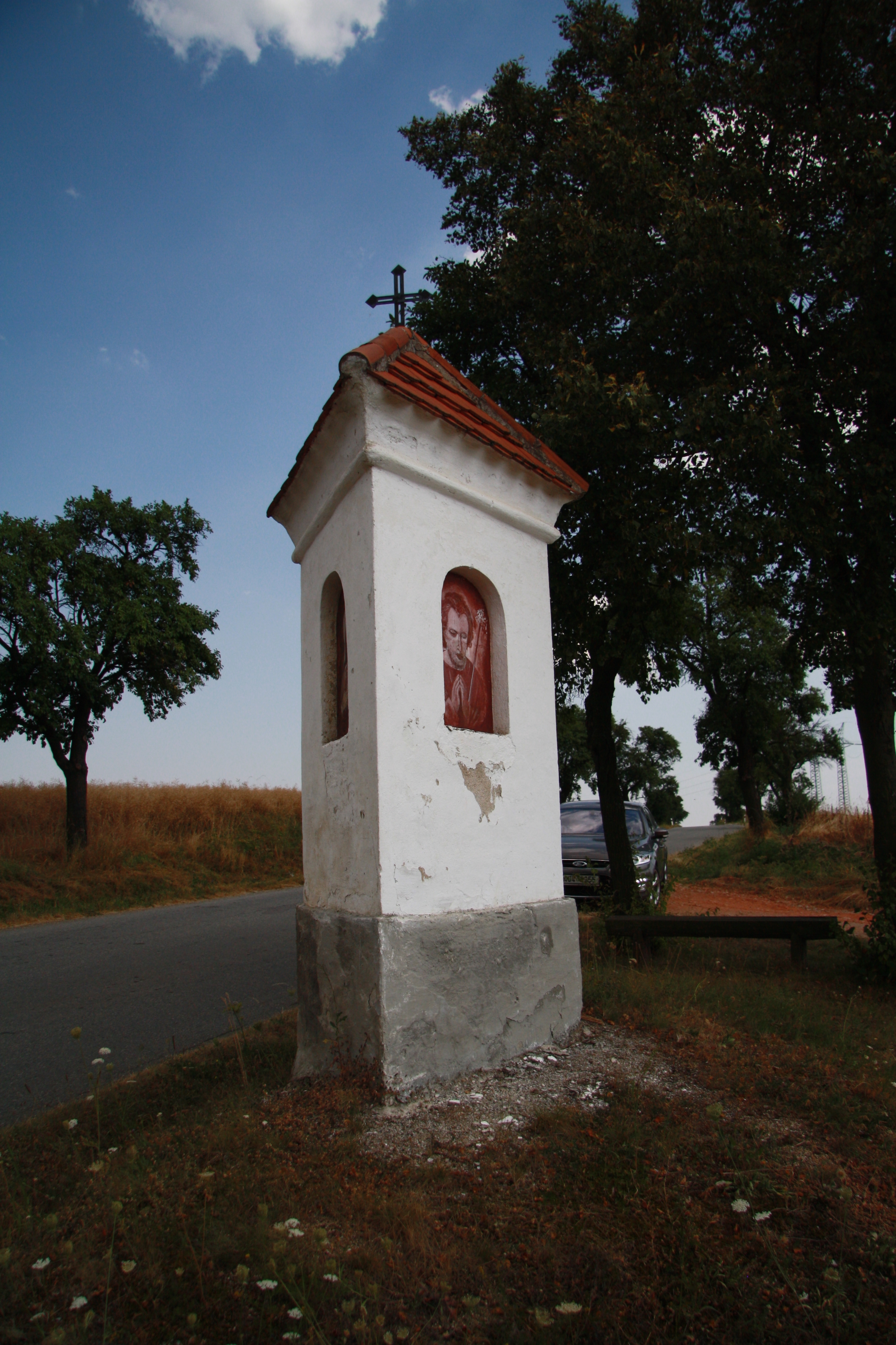 West side of column shrine in Pucov, Třebíč District.